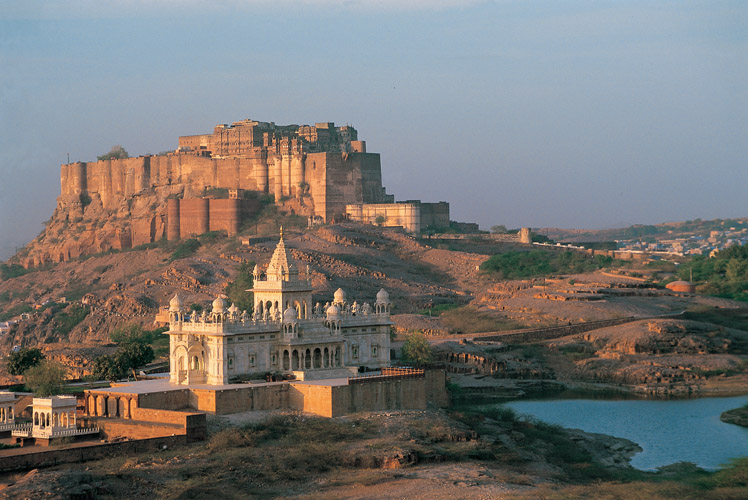 Meherangarh Fort, Jodhpur